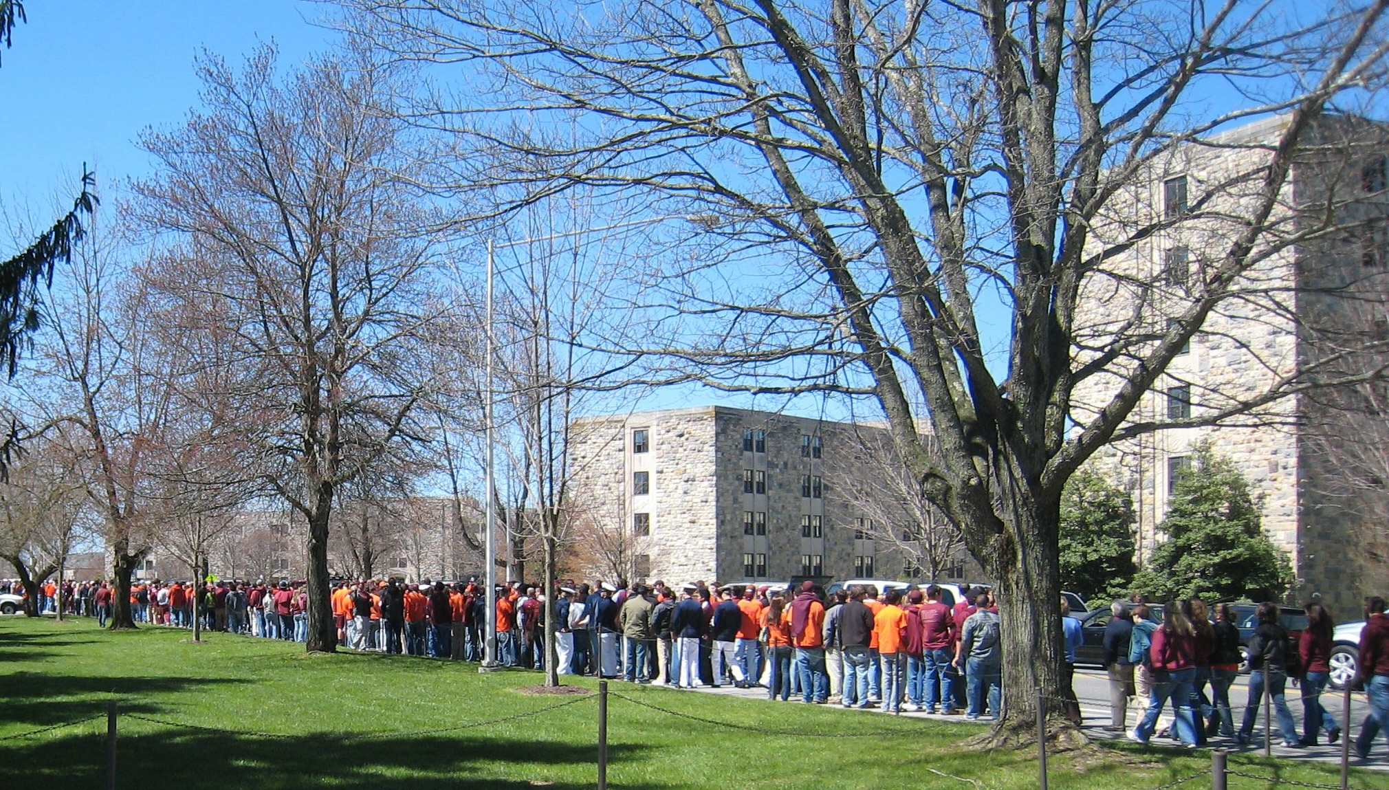 Students at Virginia Tech gather after the Virginia Tech massacre waiting in line to get into the Convocation service. The right-most building is Lee Hall. (The first two apparant structures are both part of Lee.) To the left of Lee is Pritchard Hall. Barely visible behind Pritchard is Ambler-Johnston, where the shootings took place.